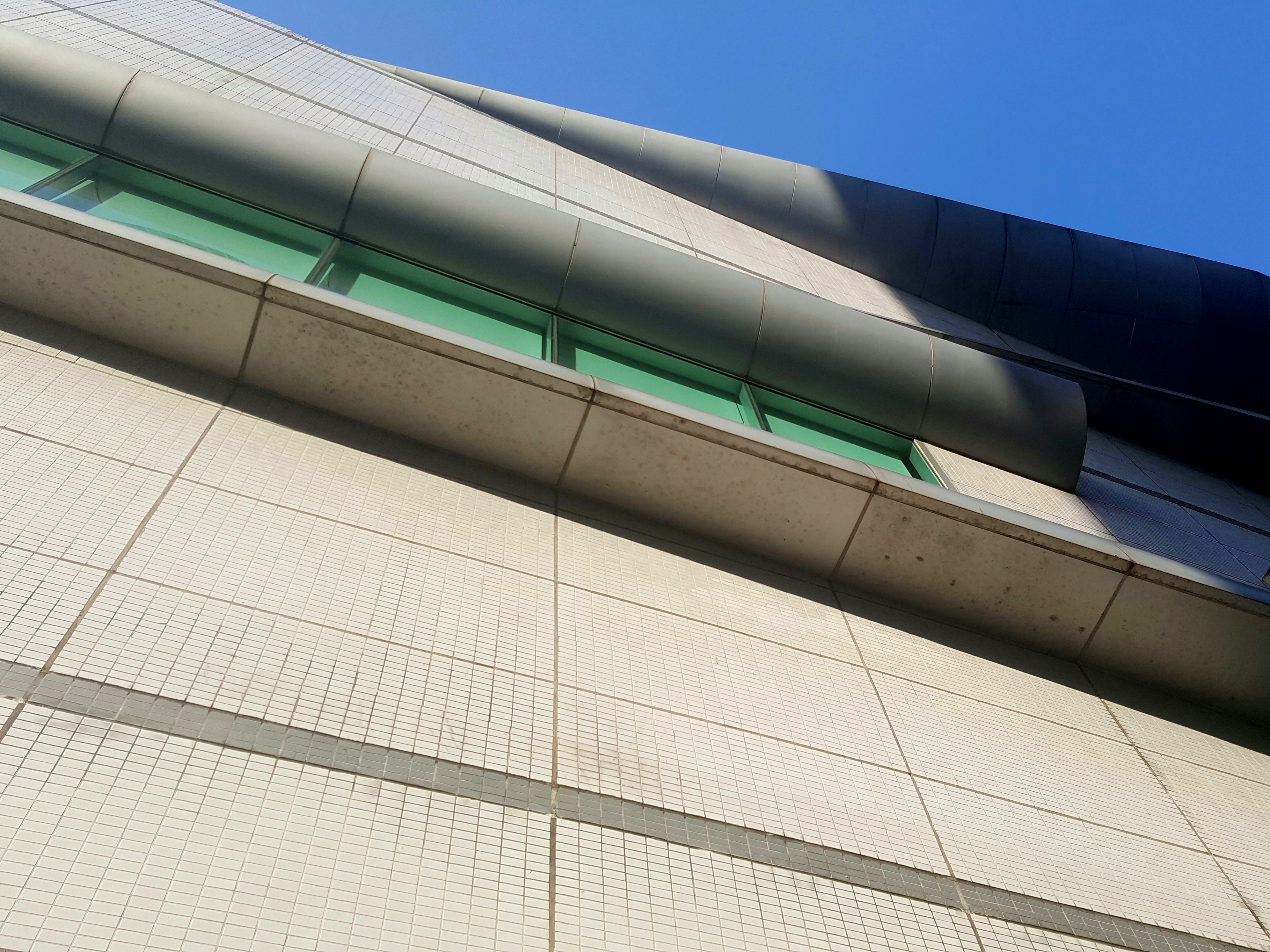 Kai Tin Shopping Centre old wing and look for sky view 4:3 Ver